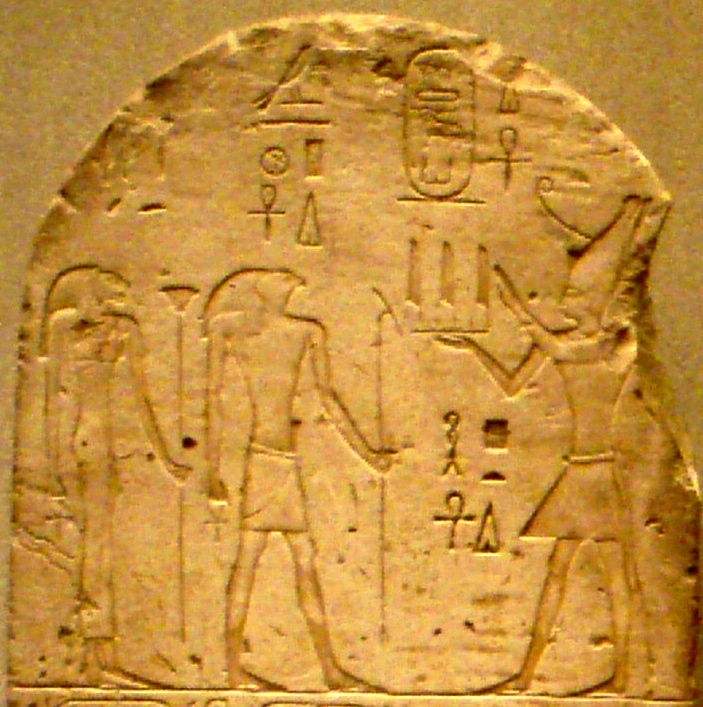 Shabaqo donation stela, from the 25th dynasty, circa 713-698 B.C. The stela depicts the pharaoh offering the hieroglyph for "field" to the gods Horus of Pe and Wadjet. (the hieroglyphs for Peh, (p-h(wick hieroglyph)), say: "Peh, Given Life". (Peh, di Ankh)